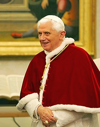 Vatican. Pope Benedict XVI.